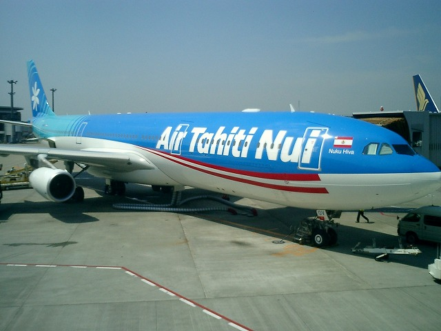 Air Tahiti Nui's A340-300 (F-OLOV) staying at Narita Airport